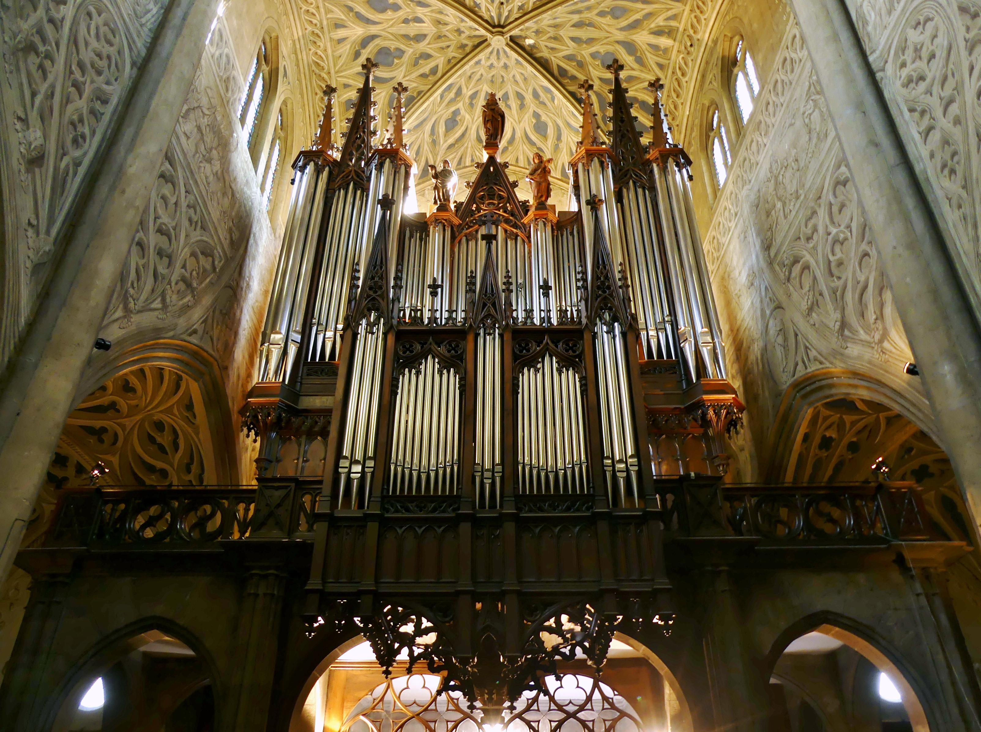 Sight, enlighted by the setting sun, of the great pipe organ and trompe-l'oeil paintings of Saint-François de Sales cathedral, in Chambéry, Savoie, France.